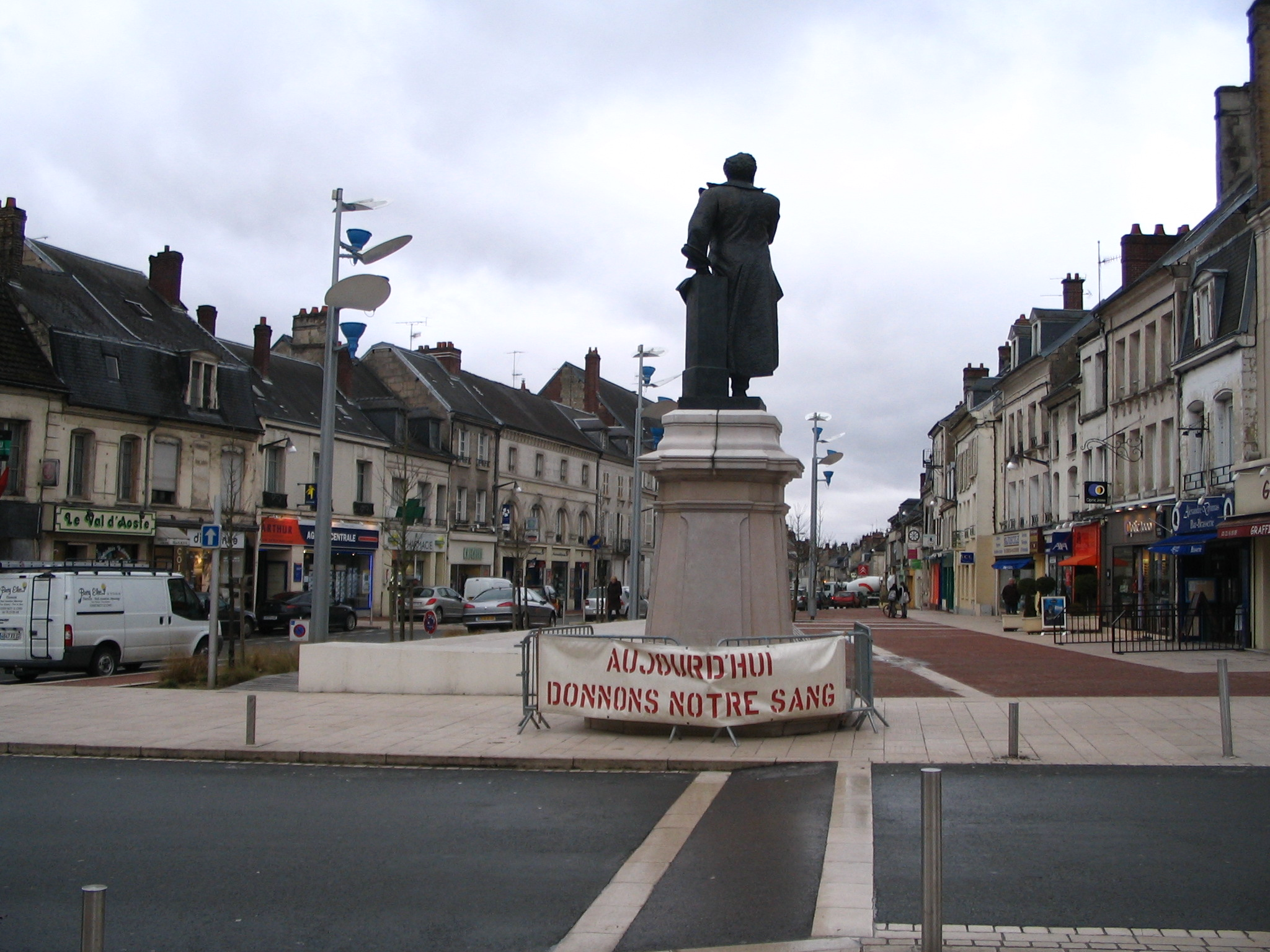 The main square of Villers-Cotterêts, Aisne, France.